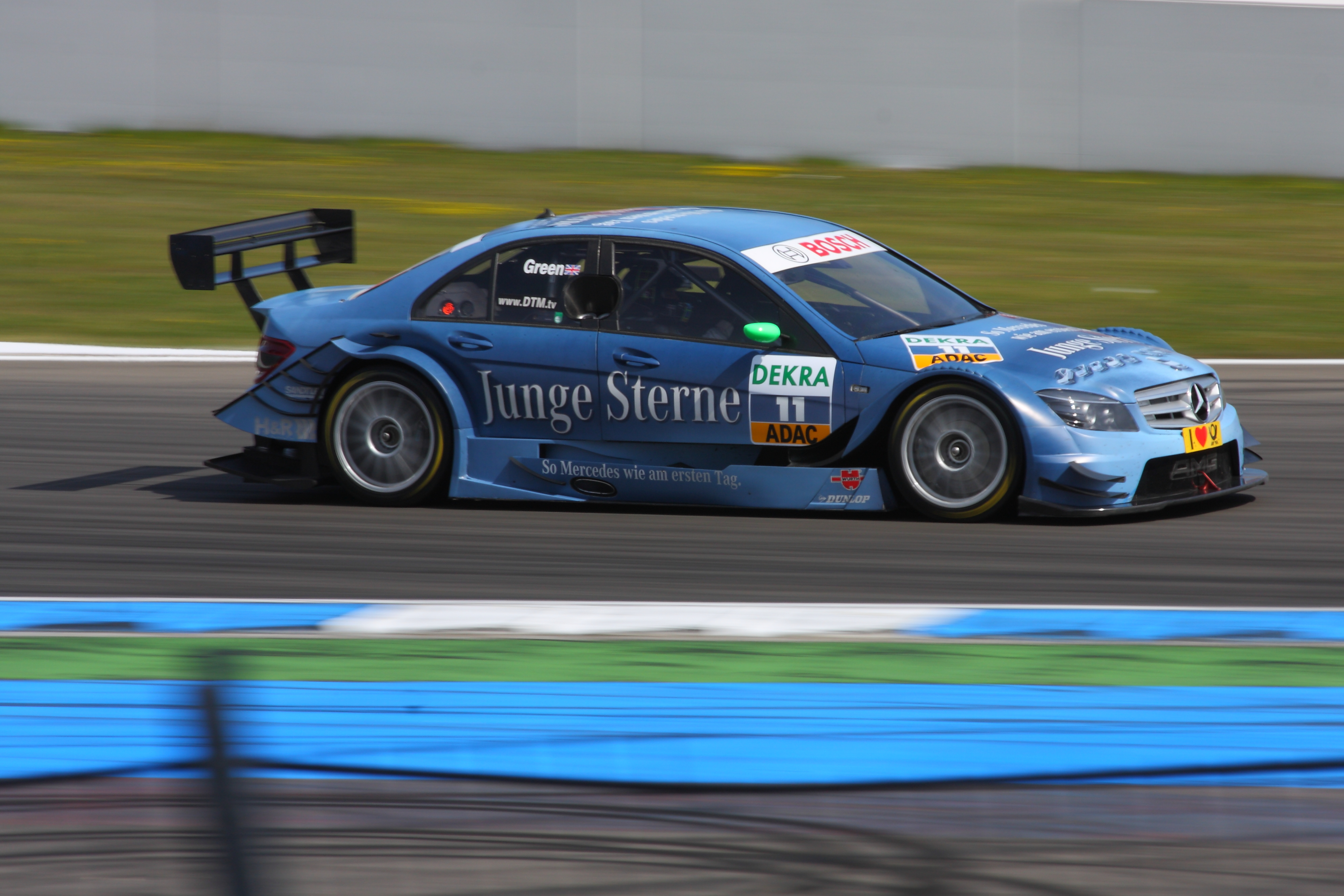 DTM car Mercedes-Benz Season 2020 (C-Class, W204), Jamie Green (driver))